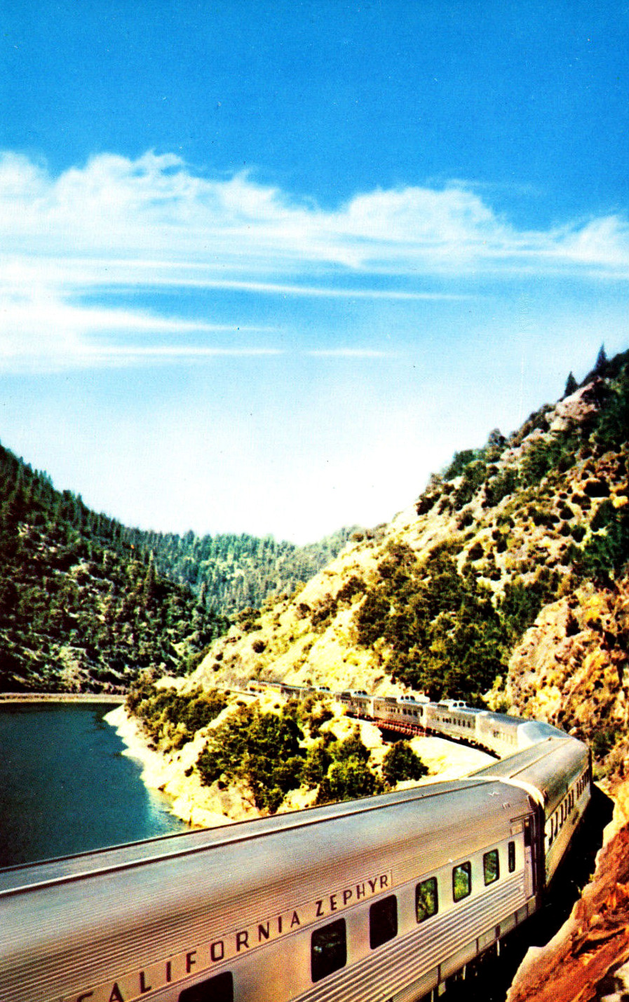 Postcard photo of the Chicago, Burlington and Quincy train, California Zephyr, in Feather River Canyon.